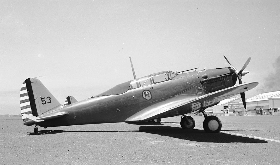 Consolidated PB-2A